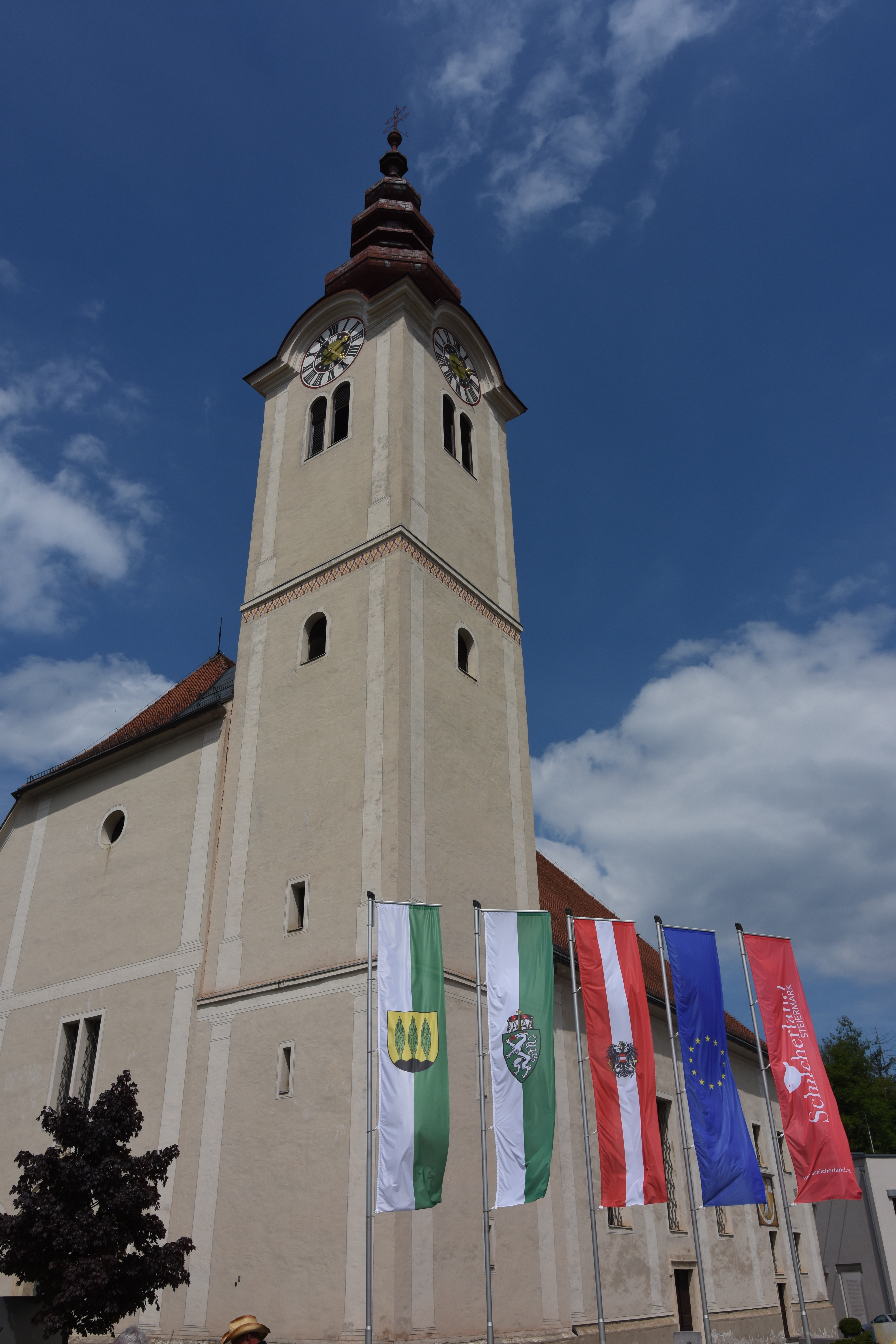 Church Eibiswald